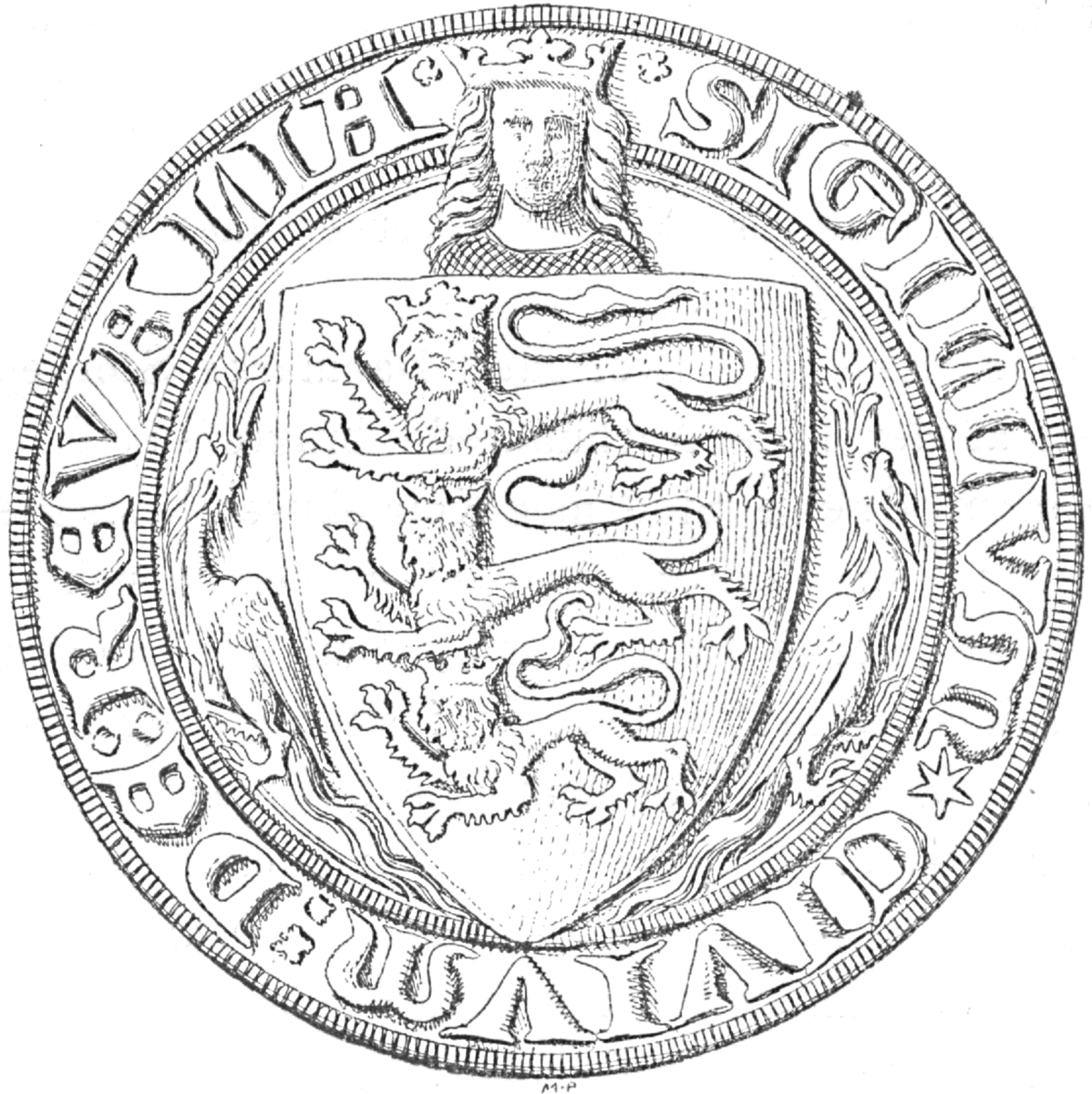 Medieval seal of Reval (modern Tallinn), Estonia. The original seal was used on a document dated 1340 when the city was part of Danish Estonia.